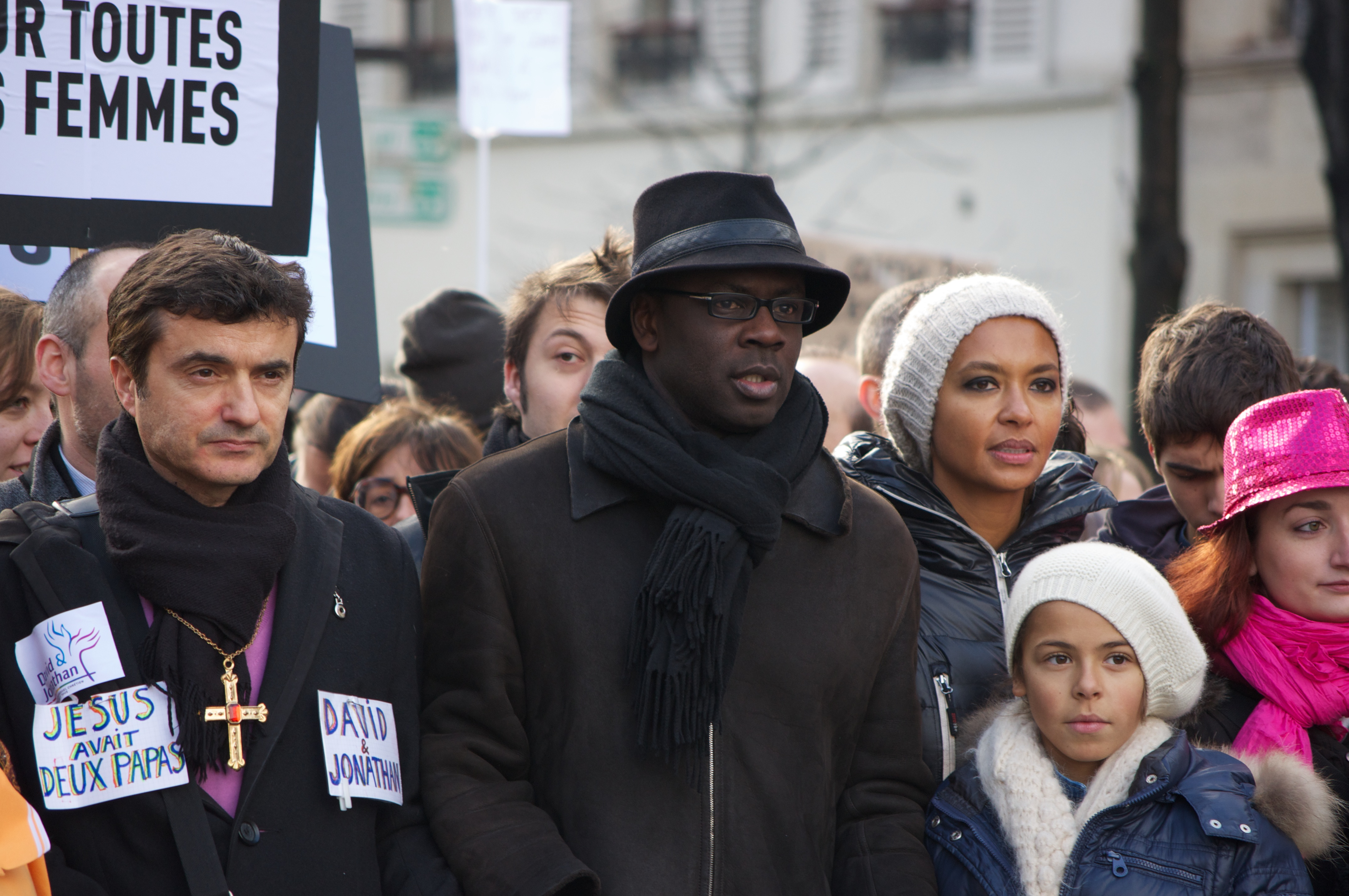 Lilian Thuram and Karine Le Marchand at the Demonstration in favour of same-sex marriage in France, Paris, France, January 27, 2013